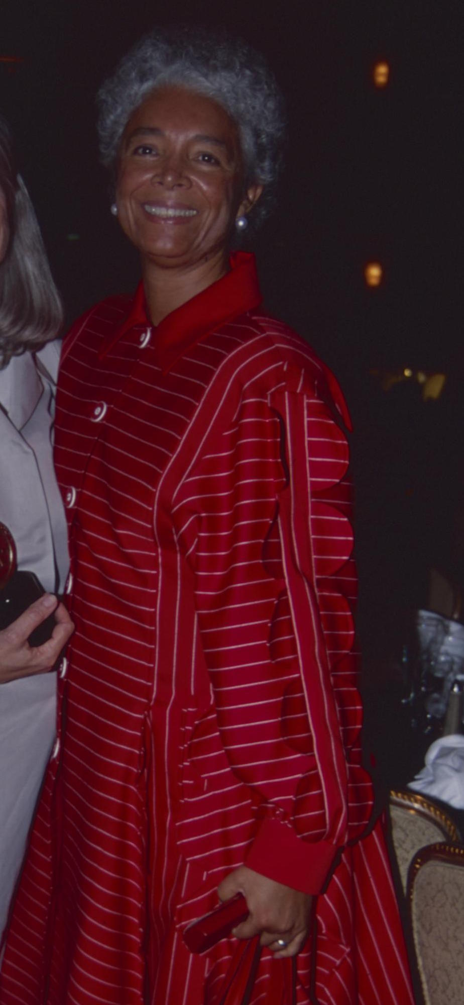 Camille Cosby at the Peabody Awards, 2000